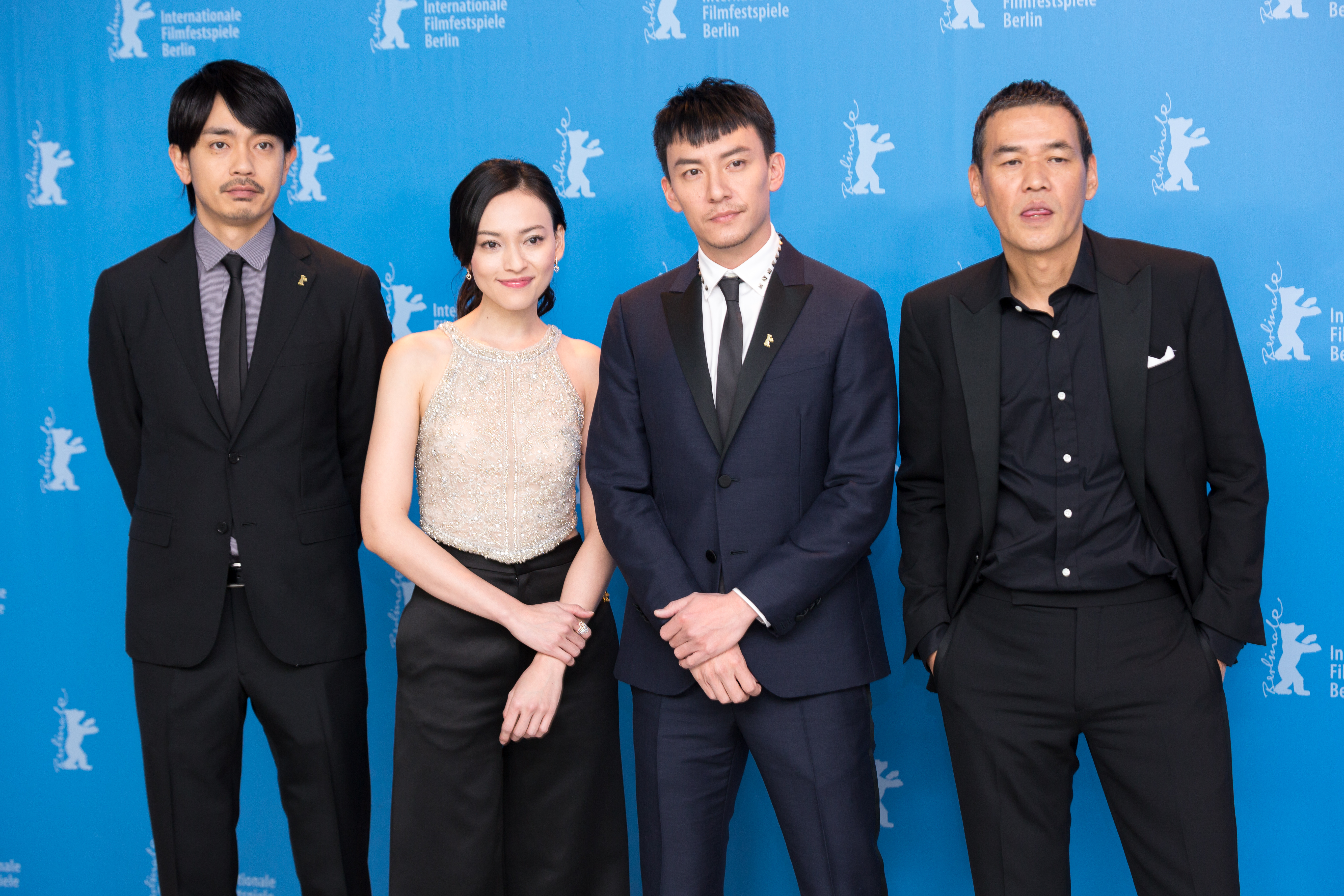 The actors Shô Aoyagi, Yi Ti Yao, Chen Chang and the director Sabu, the film team of Mr. Long at the Berlinale 2017